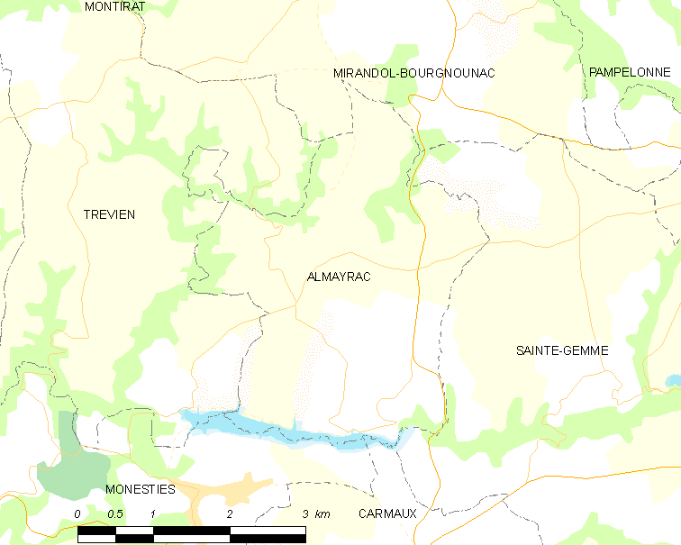 Map of French municipality Almayrac